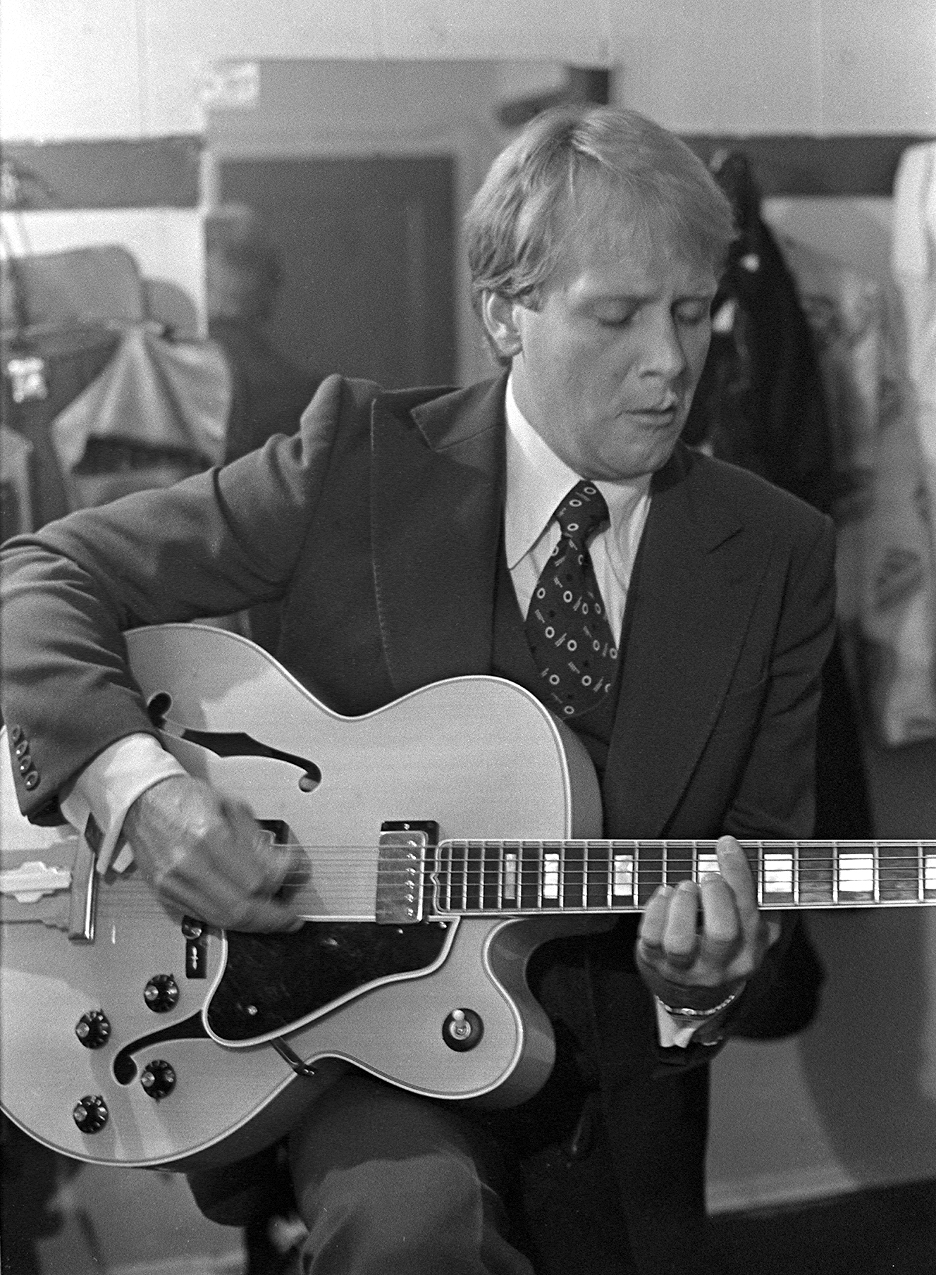 Martin Mull with guitar. Backstage at the Boarding House in San Francisco, 1976.